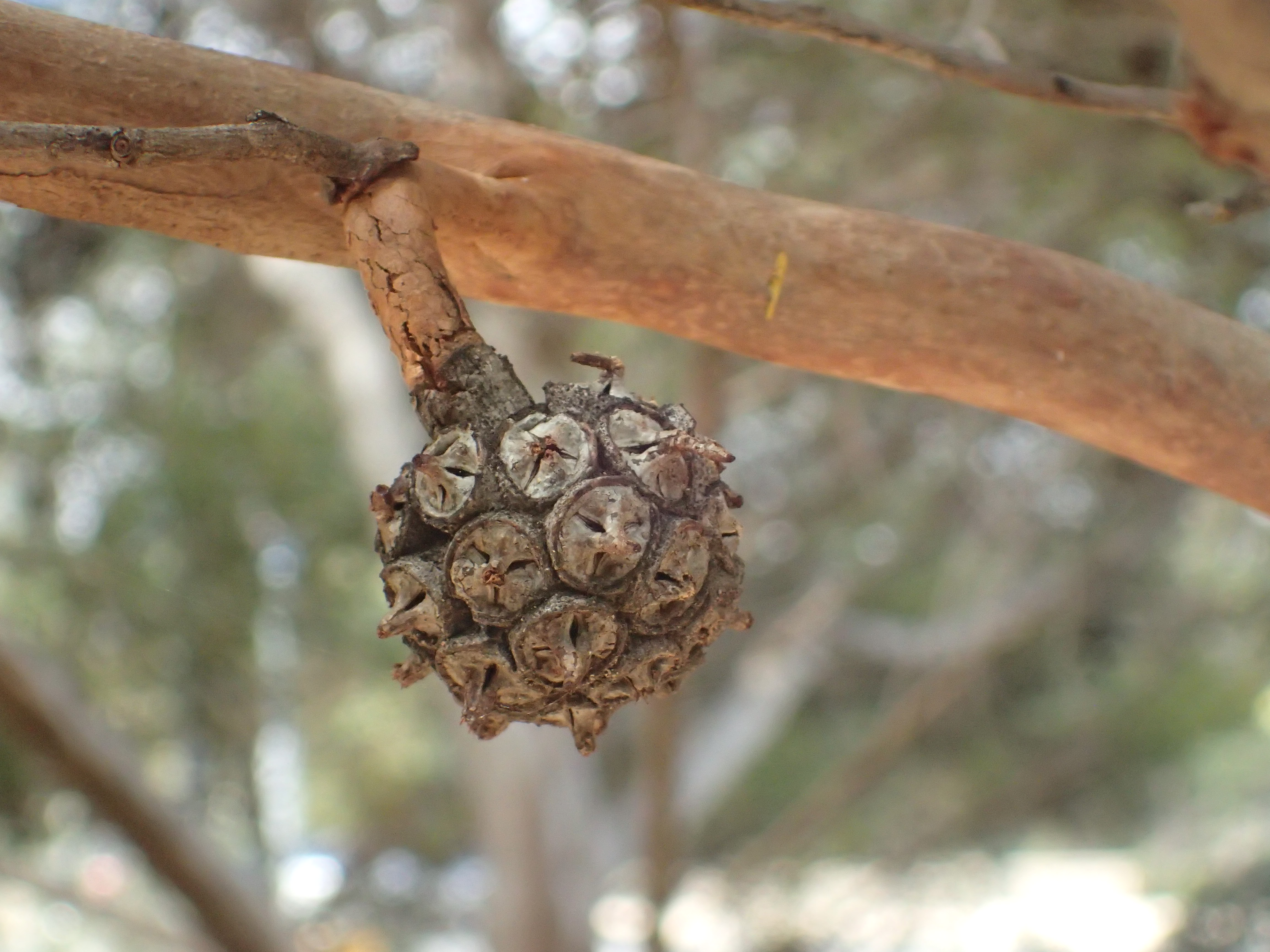 Fruit of Eucalyptus mcquoidii in Kings Park, Perth